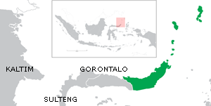 Location of North Sulawesi Province on Sulawesi Island, Indonesia